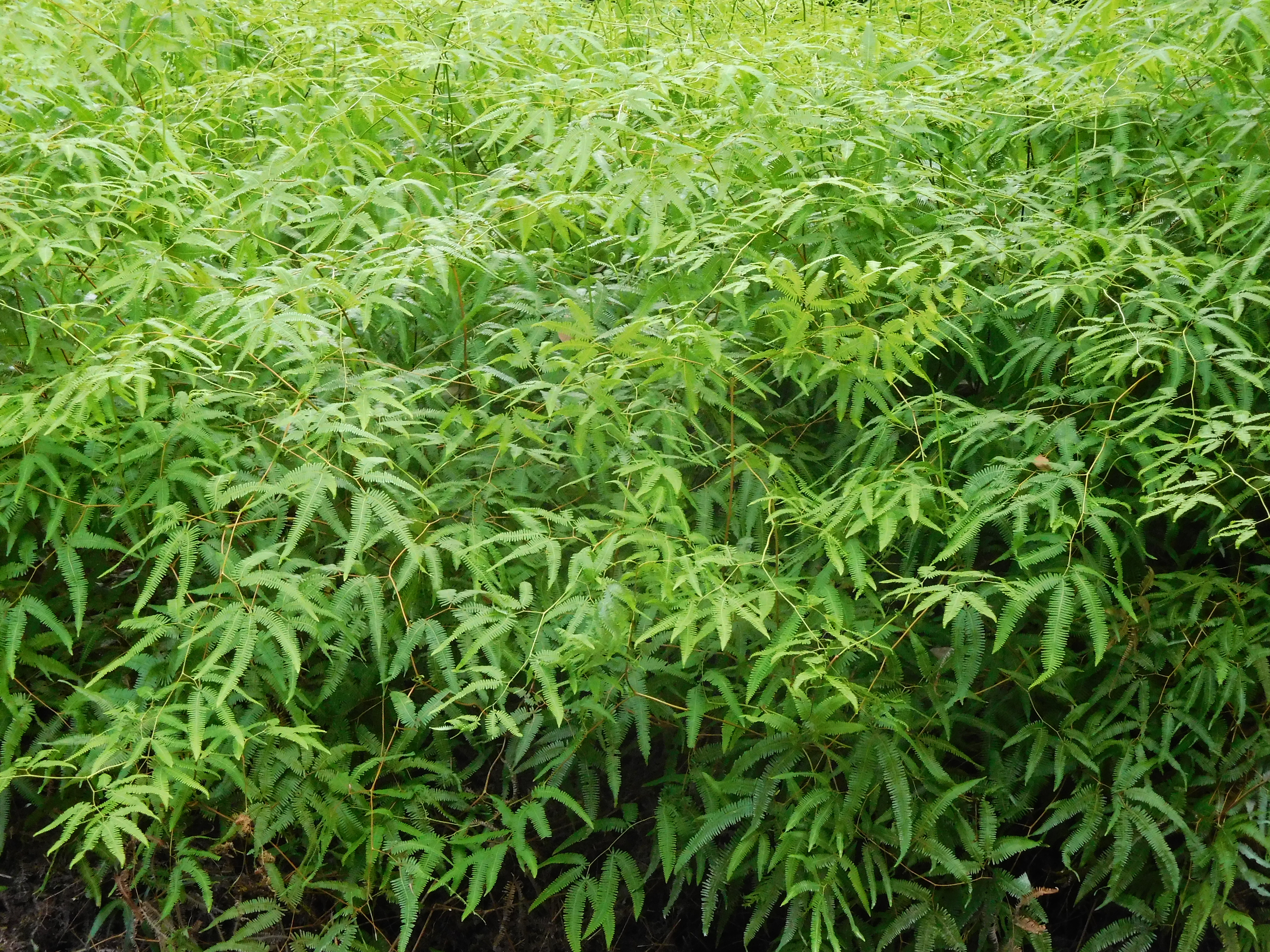 Dicranopteris linearis